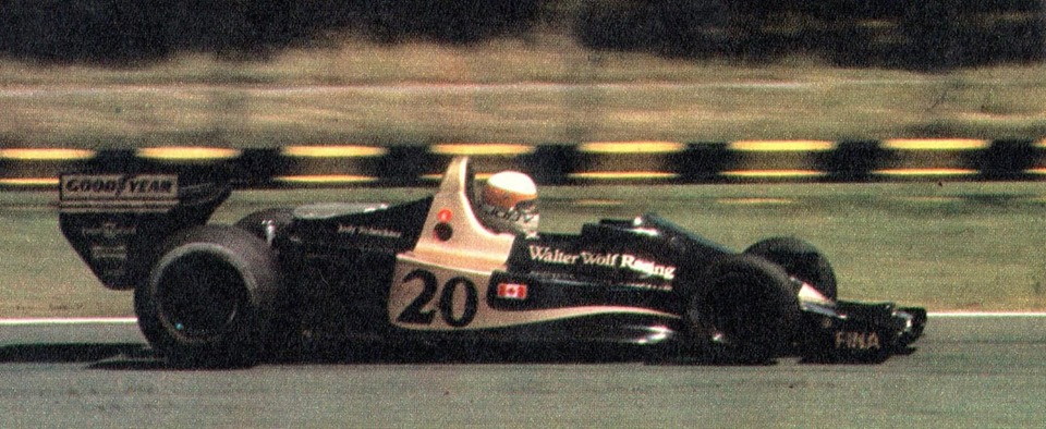 1977 Argentine Grand Prix Jody Scheckter.